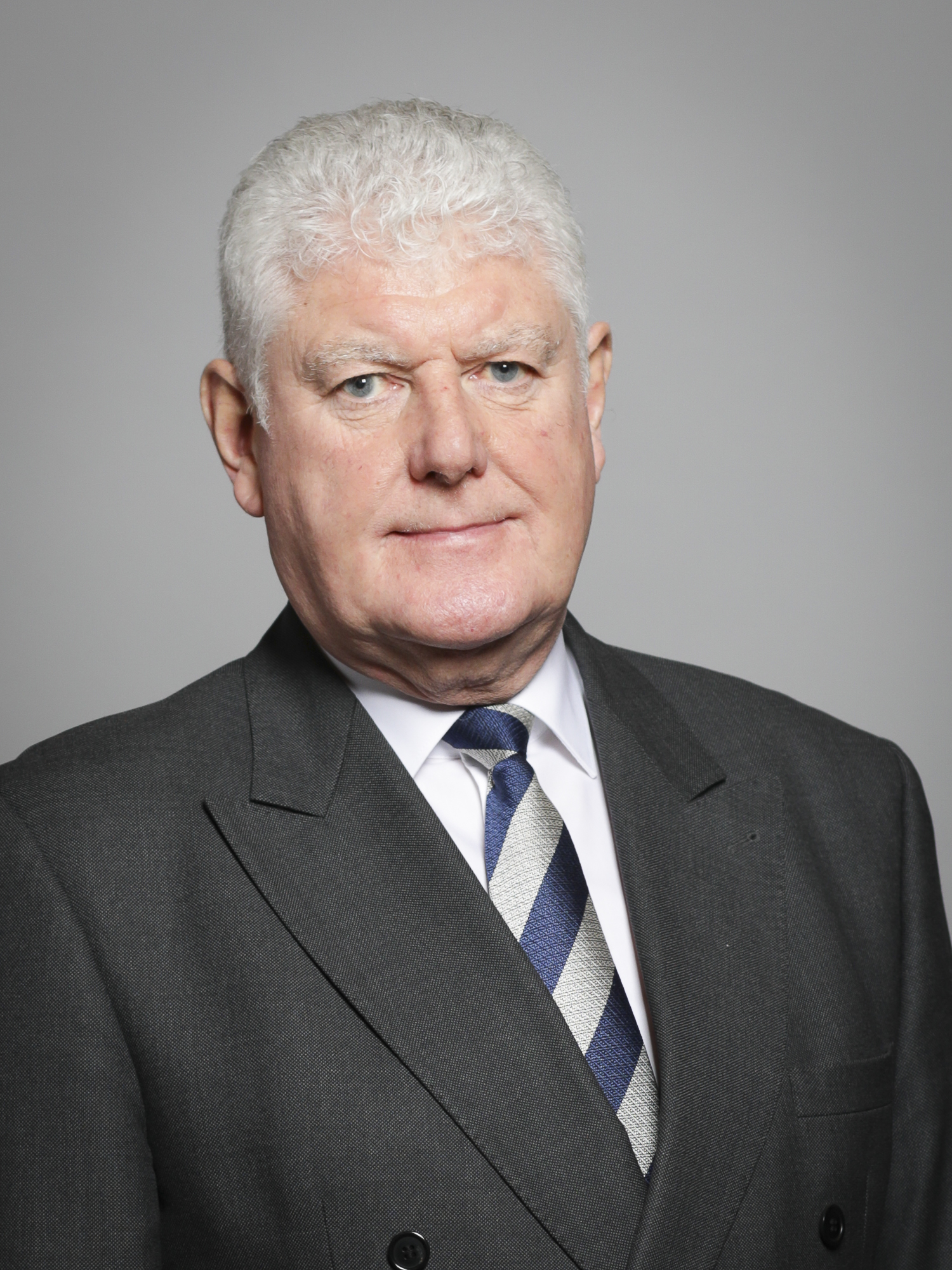 Official portrait of Lord Davies of Gower 3×4 portrait of Lord Davies of Gower